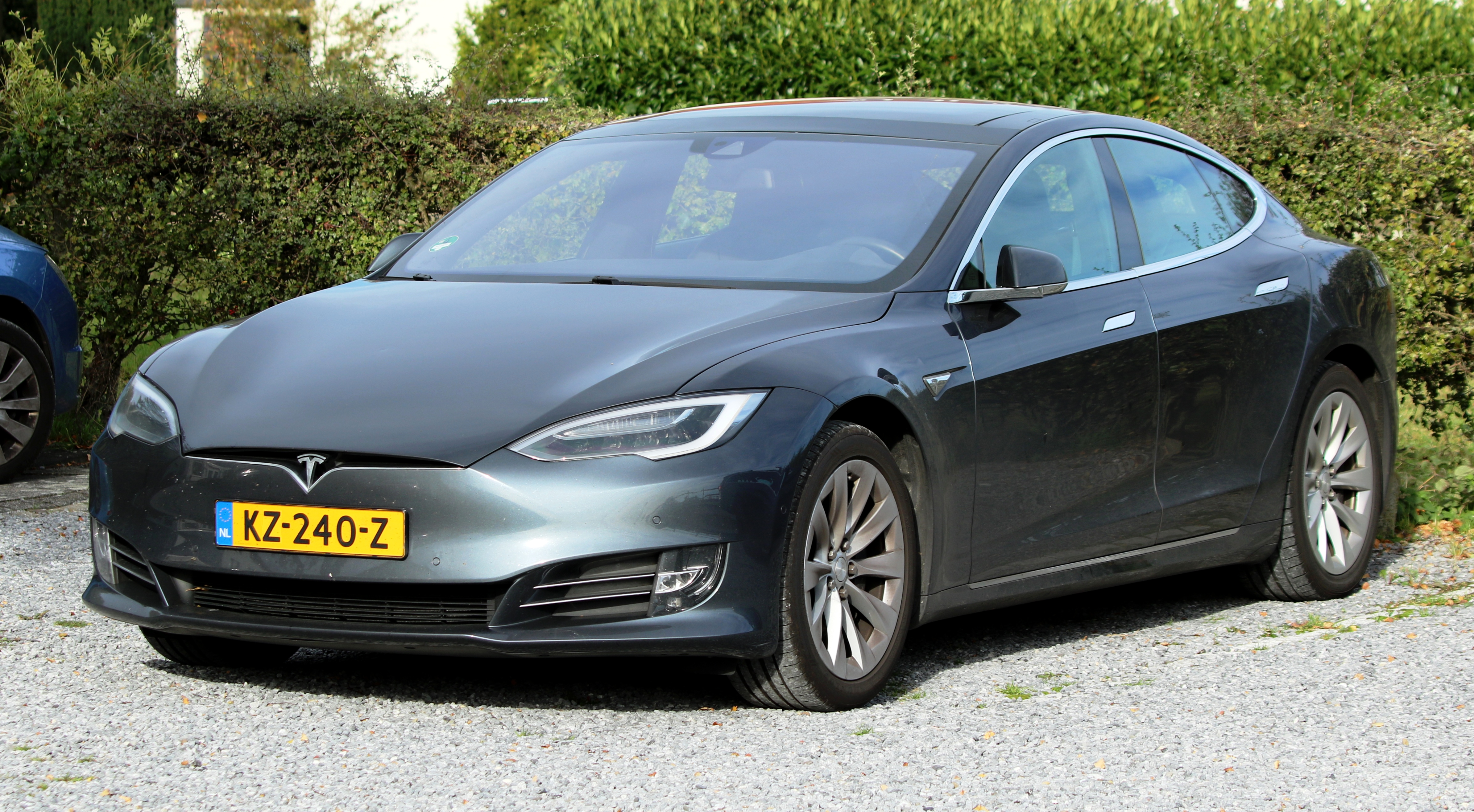 Tesla S in Limburg